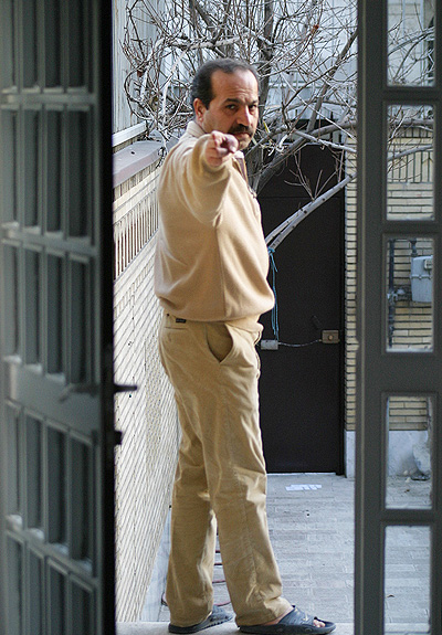 عکس های ساتیار امامی از رسول ملاقلی‌پور